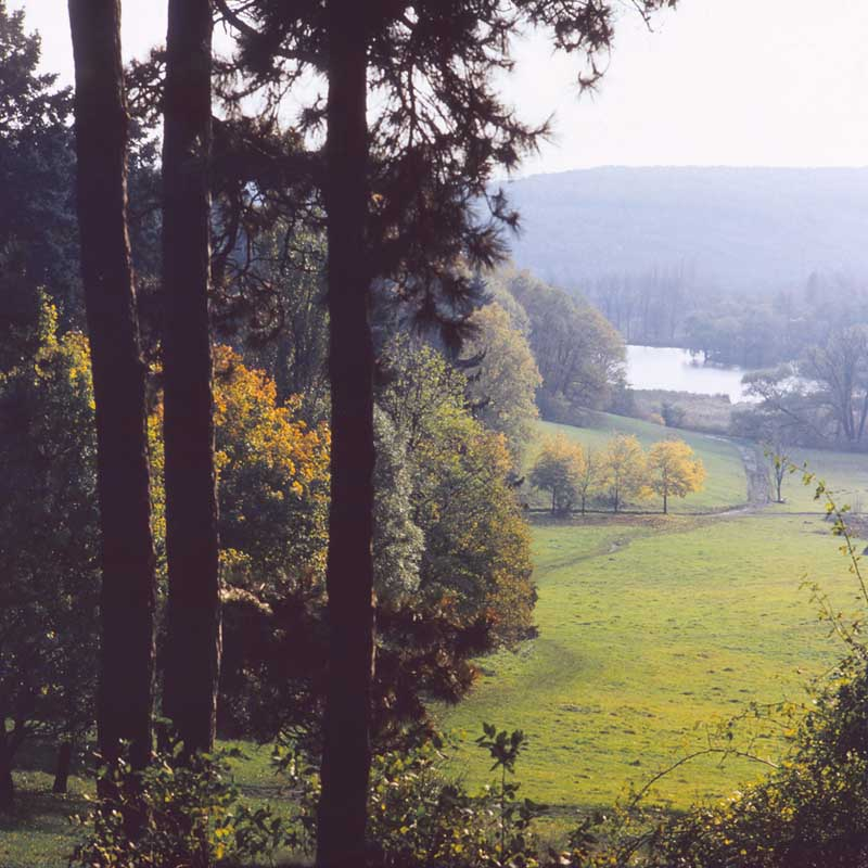 I lived here for a week and the rain poured down almost all the time. Donduseni district.